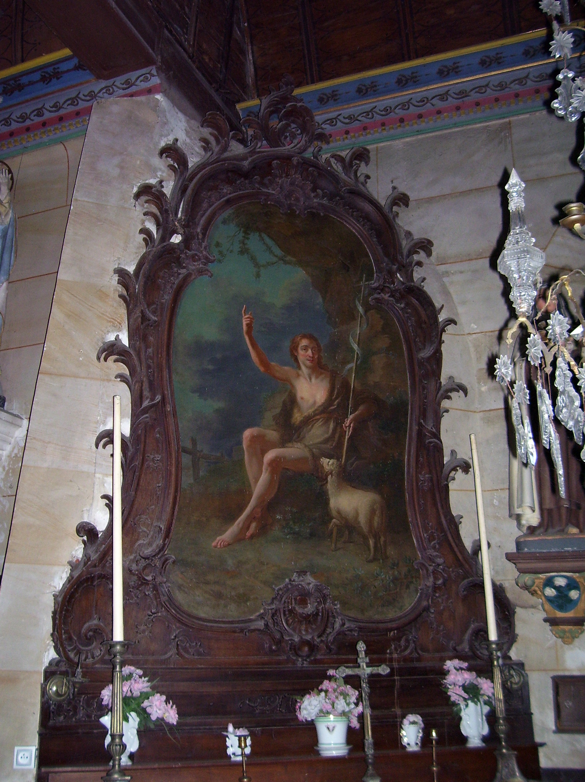 Altarpiece: Saint John the Baptist as a child